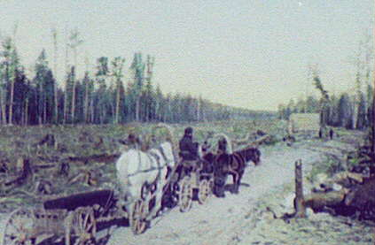 Title: Clearing on the right-of-way of the Eastern Siberian Railway, A Physical description: 1 slide : lantern, hand colored ; 3.25 x 4 in. Notes: Forms part of: Jackson, William Henry, 1843-1942. World's Transportation Commission photograph collection (Library of Congress).; Gift; William P. Meeker; 1971.